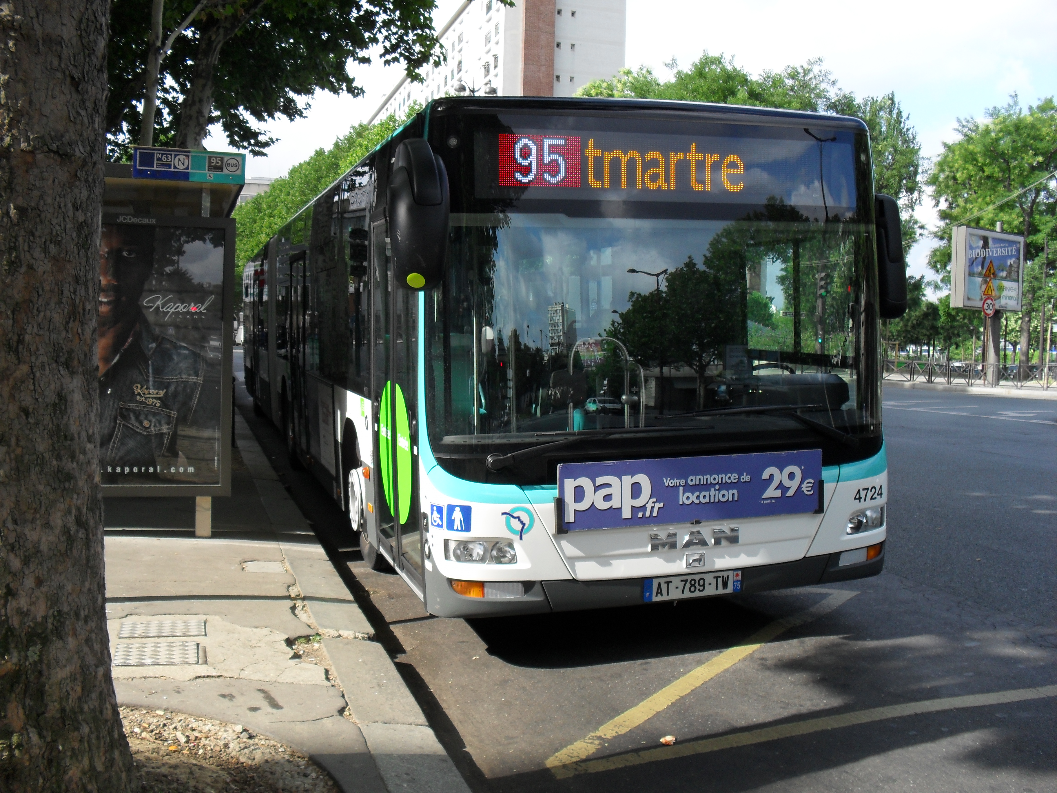 MAN NG 313 Lion's City G bus (#4724) in Paris, France. Built 2010, RATP Paris operator.